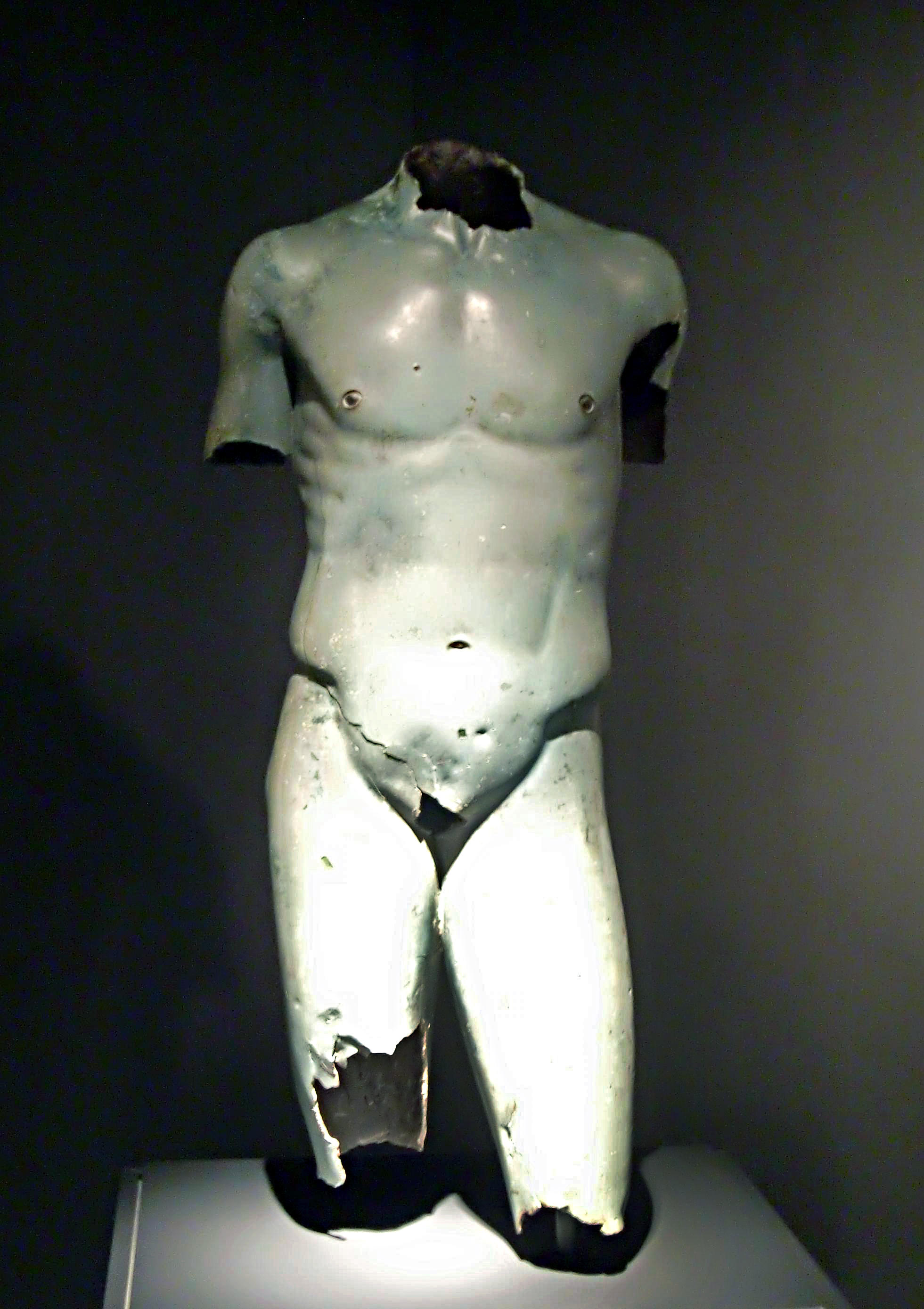 Torso of a Youth from Georgia, 2nd Century BC [1]. With thanks to the Georgian National Museum for allowing photography